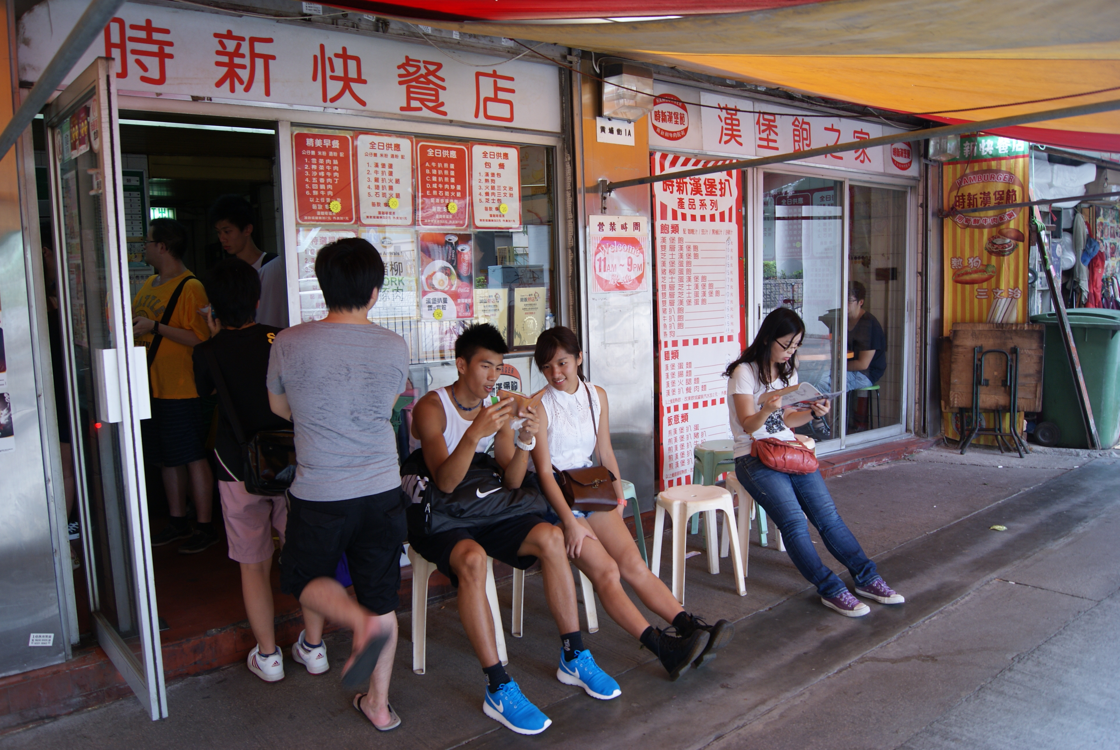 Si Sun Fast Food (時新快餐店) at 1 Whampoa Street, Hung Hom, Hong Kong.